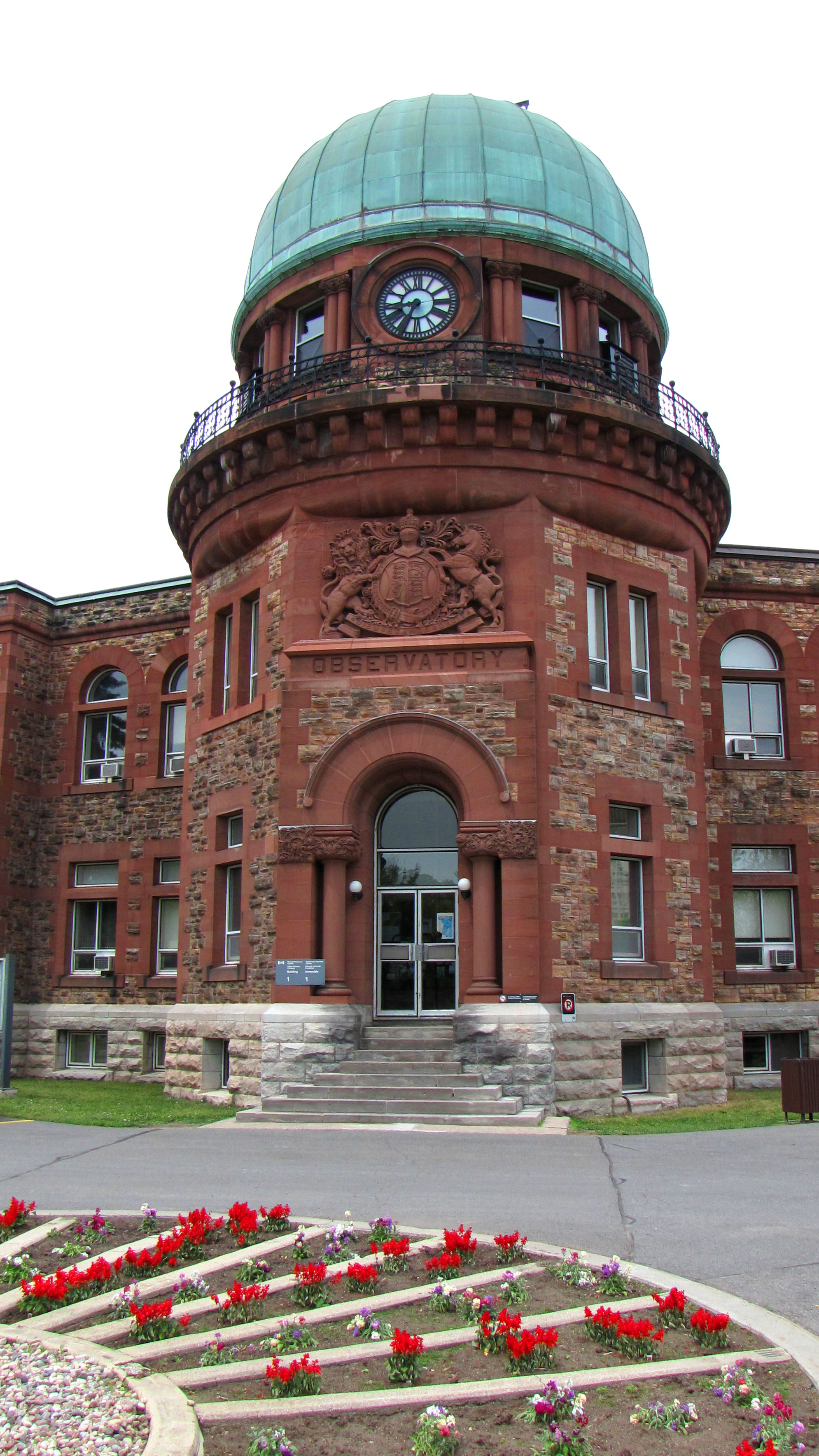 Observatory, Building 1, Central Experimental Farm, Ottawa, Ontario, Canada